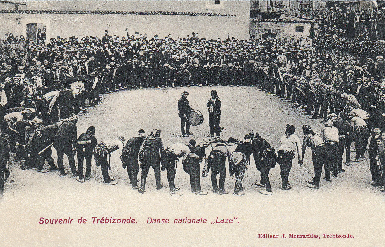 Postcard from Trebizond (Trabzon).